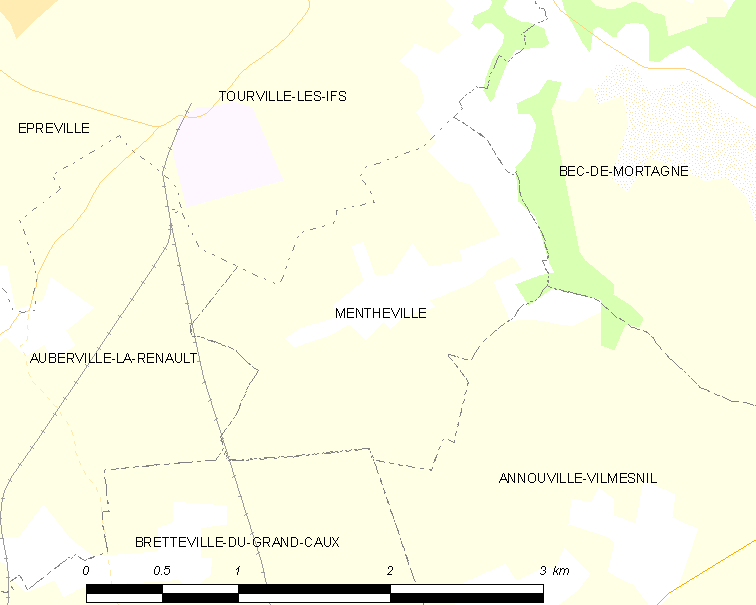 Map of French municipality Mentheville